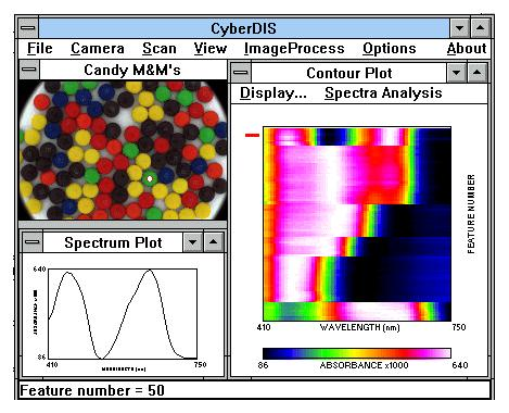 Full spectrum of a plate of M&Ms candy.